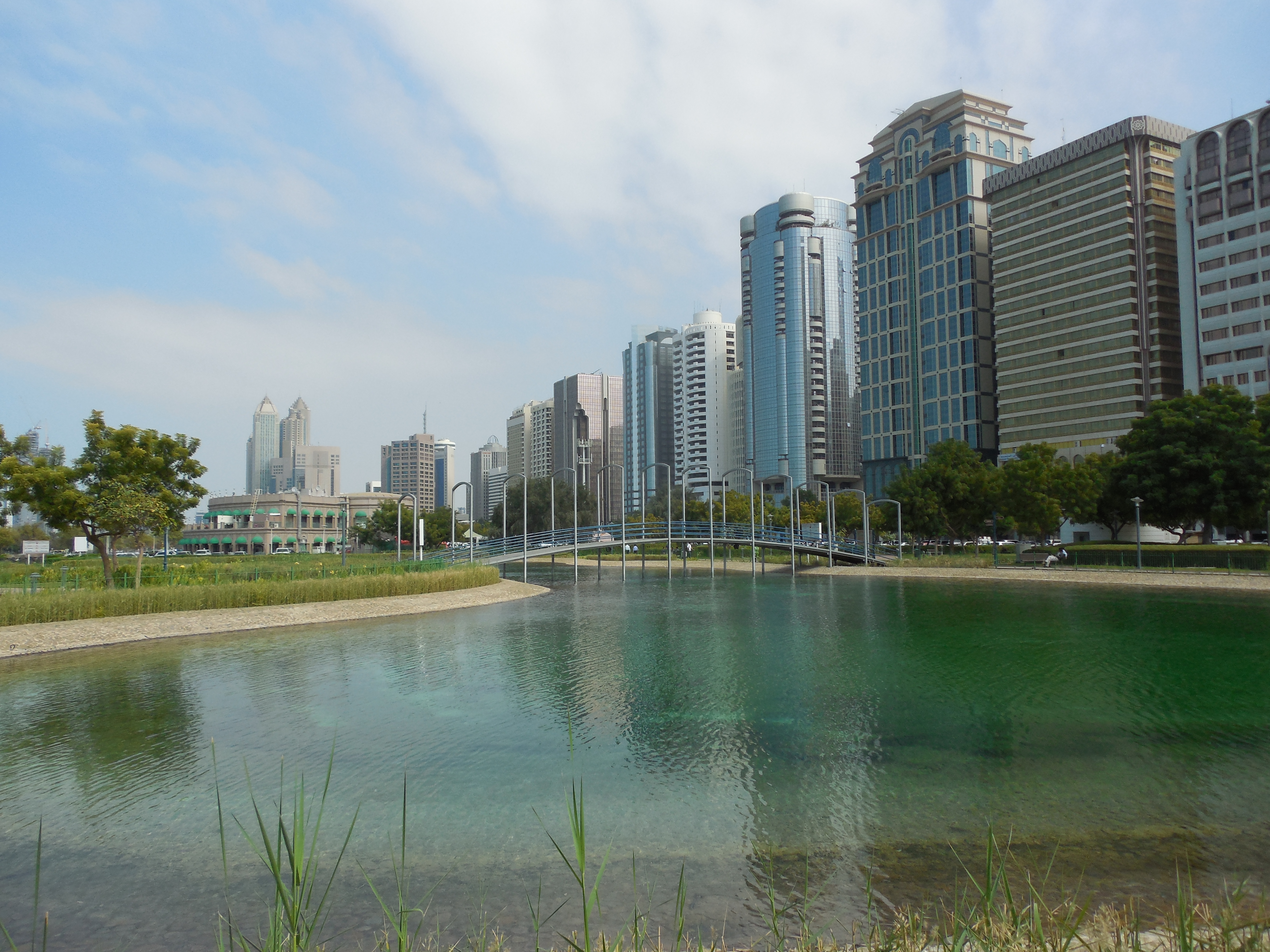 A view from Lake Park in Abu Dhabi, UAE